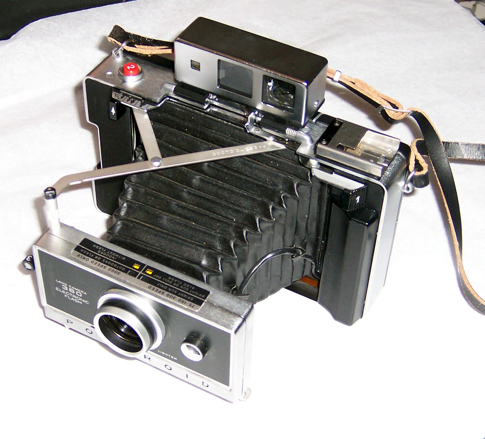 Polaroid Land Camera 360, circa 1969-1971. Photo by the uploader (User:Morven), released under the GFDL and Creative Commons Attribution Share-Alike, version 2.5 or earlier.